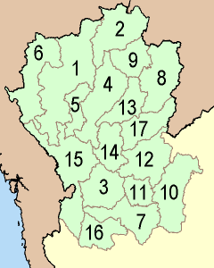 Map of northern Thailand with the provinces numbered Chiang Mai Chiang Rai Kamphaeng Phet Lampang Lamphun Mae Hong Son Nakhon Sawan Nan Phayao Phetchabun Phichit Phitsanulok Phrae Sukhothai Tak Uthai Thani Uttaradit